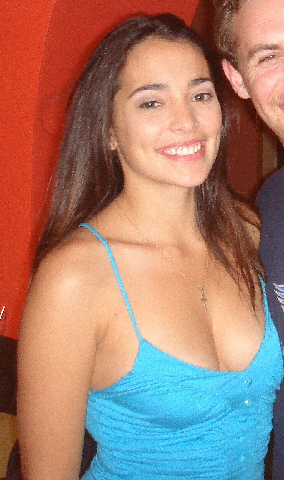 American actress Natalie Martinez, pictured with Kevin Tostado in February 2007.